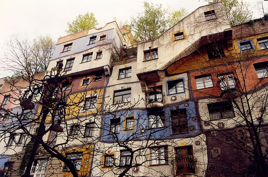 Austria, Vienna, Hundertwasserhaus